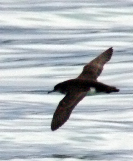 Hutton's Shearwater (Puffinus huttoni), Kaikoura This is a retouched picture, which means that it has been digitally altered from its original version. Modifications: Cropped. The original can be viewed here: Hutton's shearwater.jpg. Modifications made by Roarjo.